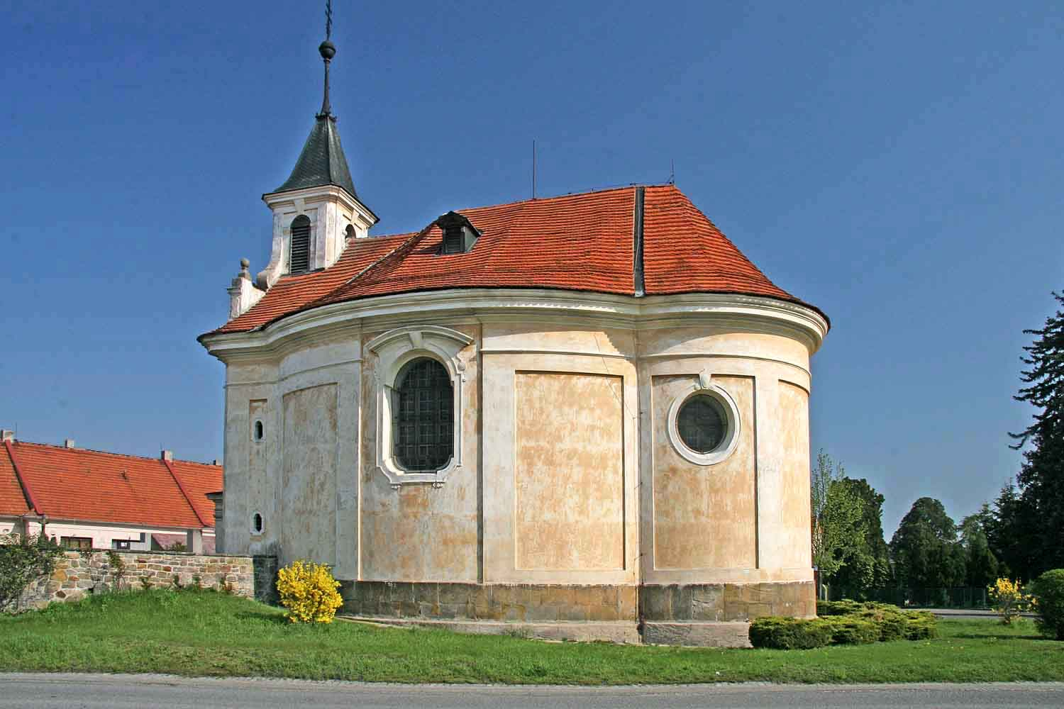 Baroque church of St Peter ad Vincula in Velenka, Nymburk District, Czech Republic. Designed by K. I. Dientzenhofer, built in 1733-1734.